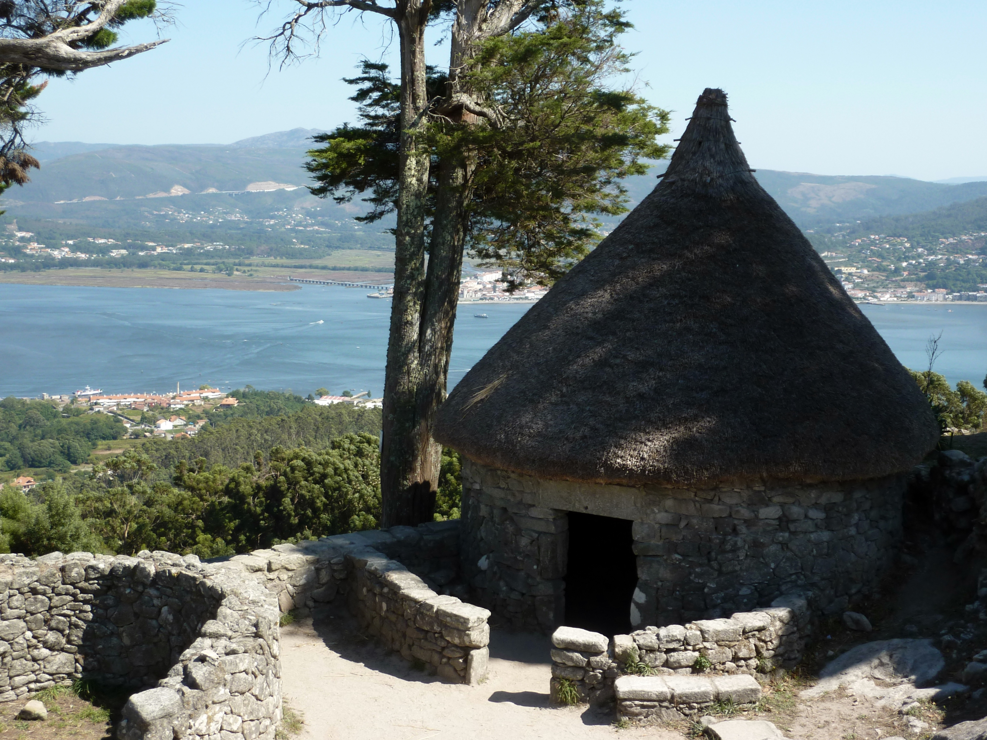 Rebuilt hut in the oppidum of Santa Tegra, A Guarda, Galicia.